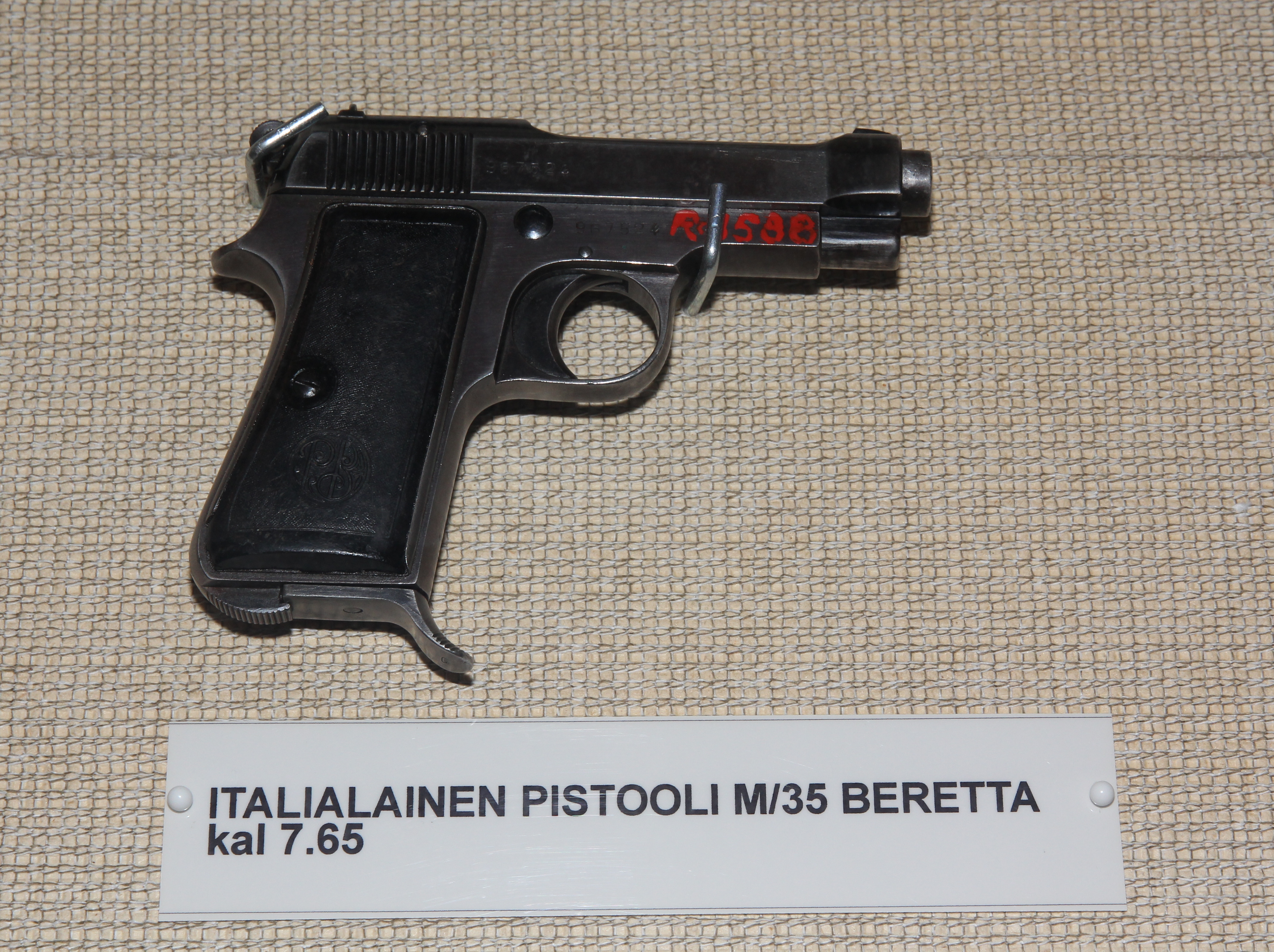 7.65 mm Beretta M/35 pistol in Imatra Border Museum.